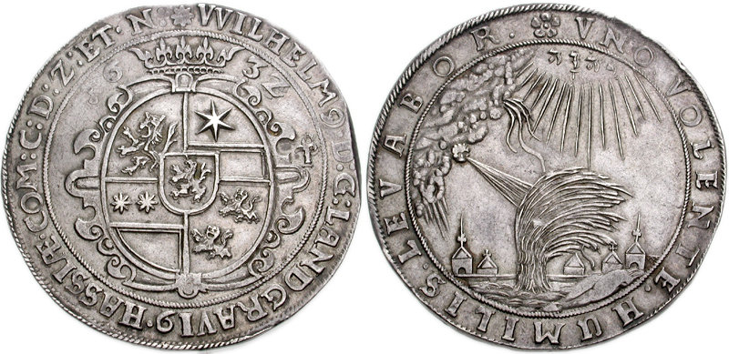 GERMANY, Hessen-Kassel. Wilhelm V. 1627-1637. AR Taler (44mm, 29.14 g, 9h). Terenz Schmidt, mintmaster. Dated 1632. Crowned coat of arms / Willow tree being buffeted by storm and struck by lightning from the clouds, sun above inscribed “Jehovah” in Hebrew, five buildings in background. Schütz 806; Davenport 6746. EF, toned.